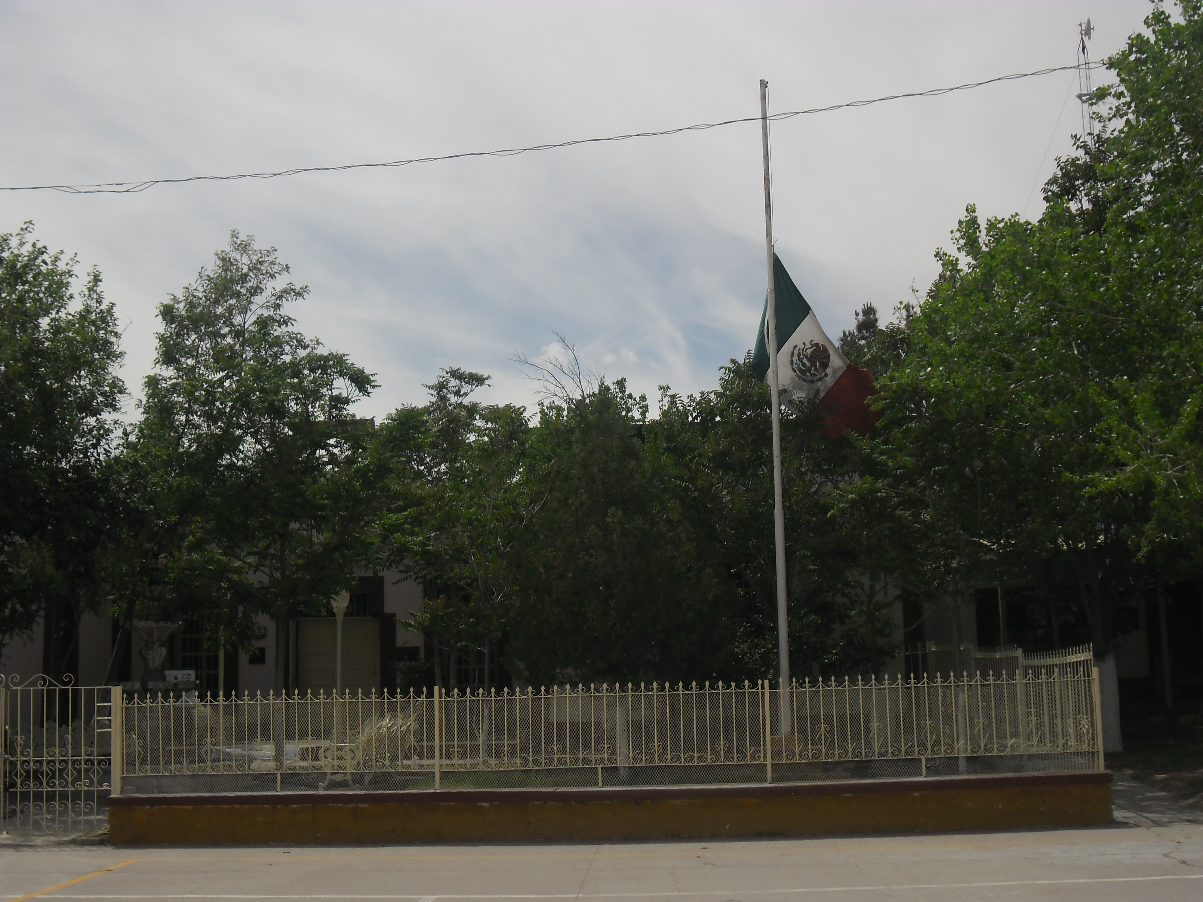 MUSEUM